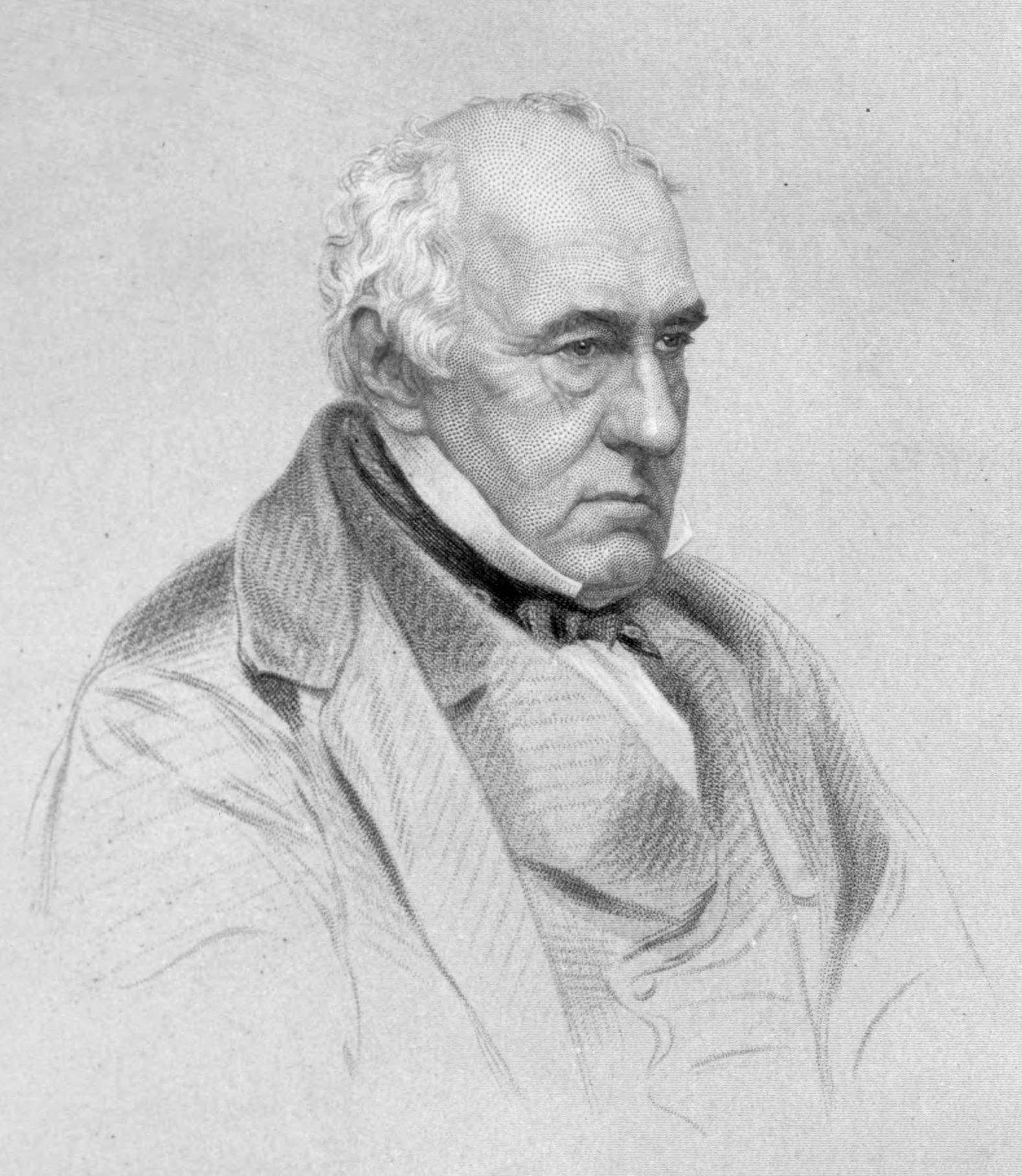 Engraving of Charles Greville by Joseph Brown, after a photograph by J.E. Mayall.